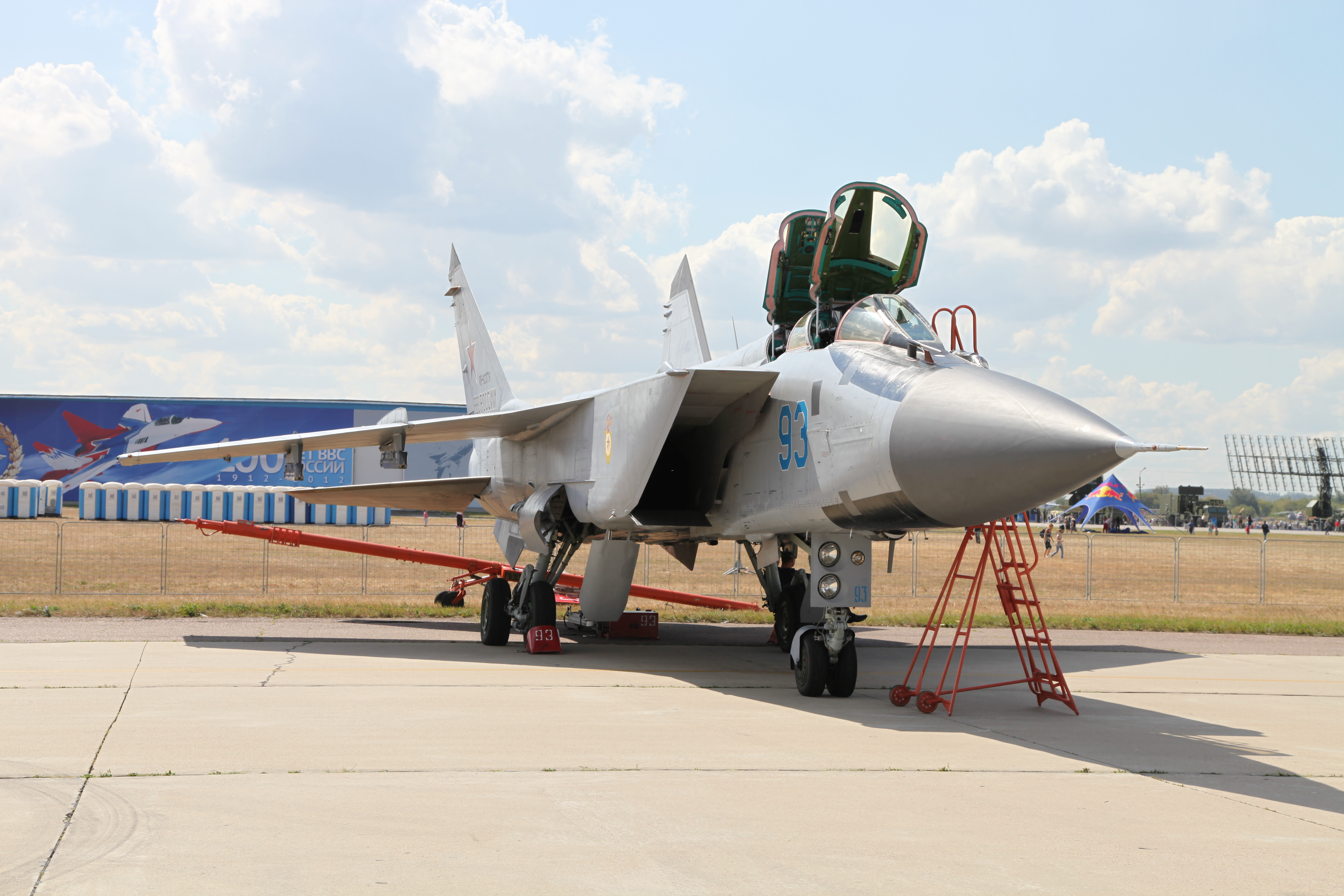 Aircraft at the Celebration of the 100th anniversary of Russian Air Force.